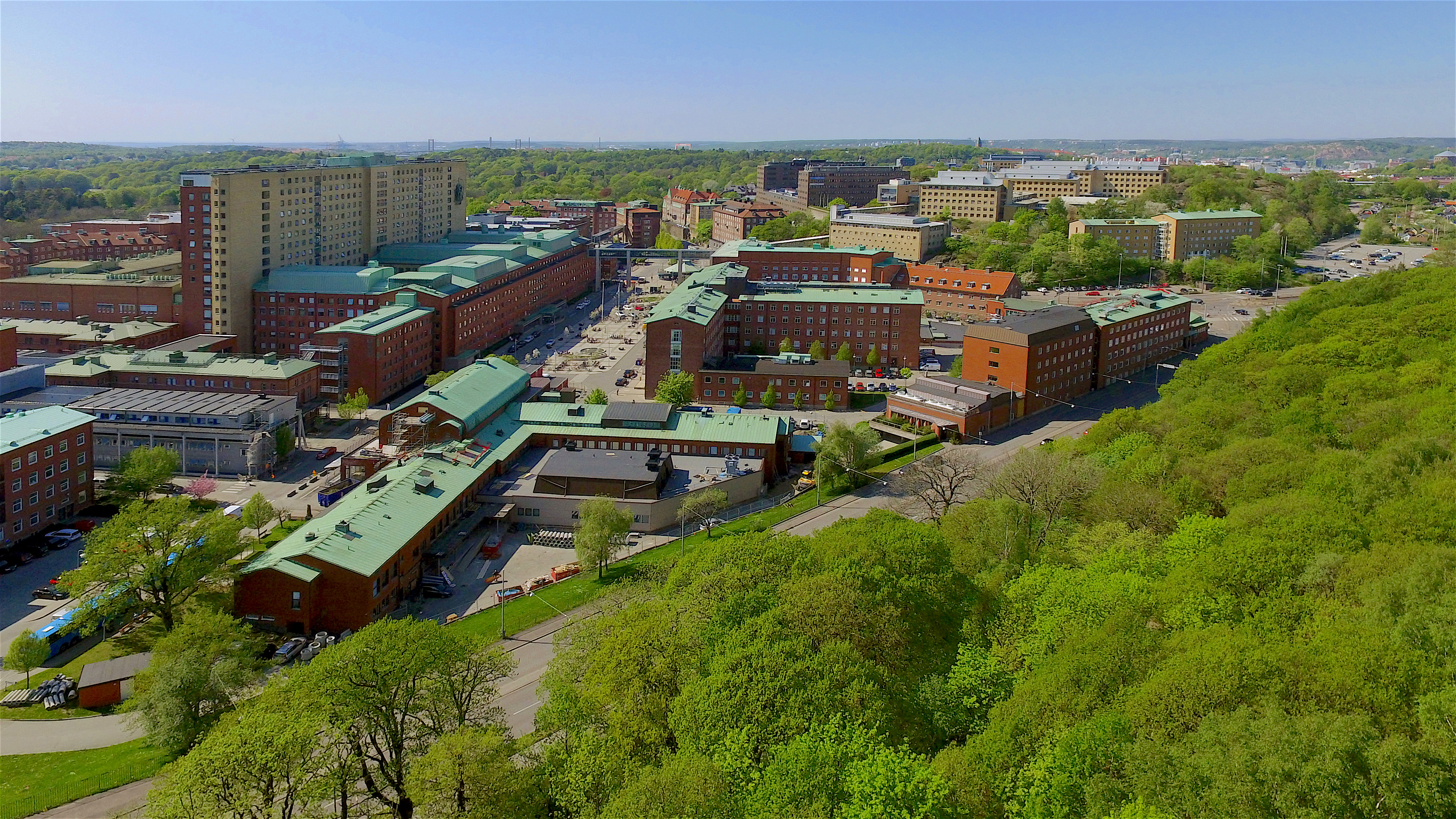 Sahlgrenska University Hospital, Gothenburg, SWEDEN